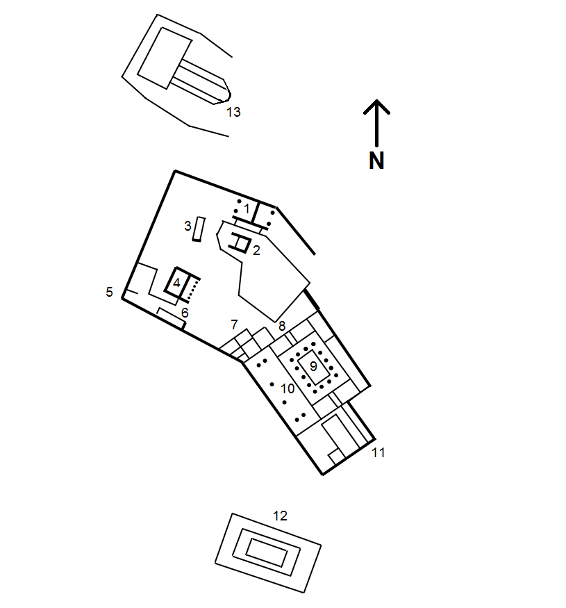 Plan of the Asclepeion of Troezen: 1 = Propylaea 2 = Small temple with sacred grove 3 = Altar 4 = Wide temple 5 = Side entrance 6 = Nymphaeum 7 = Baths 8 = Entrence to the main building 9 = Peristyle 10 = Dormitory 11 = Drain 12 = Temple of Hippolytus 13 = Byzantine basilica